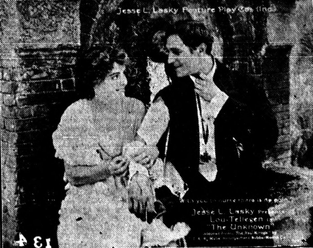 The Unknown is a 1915 silent drama film produced by Jesse Lasky and distributed by Paramount Pictures. This is a scene from the film published in a newspaper.